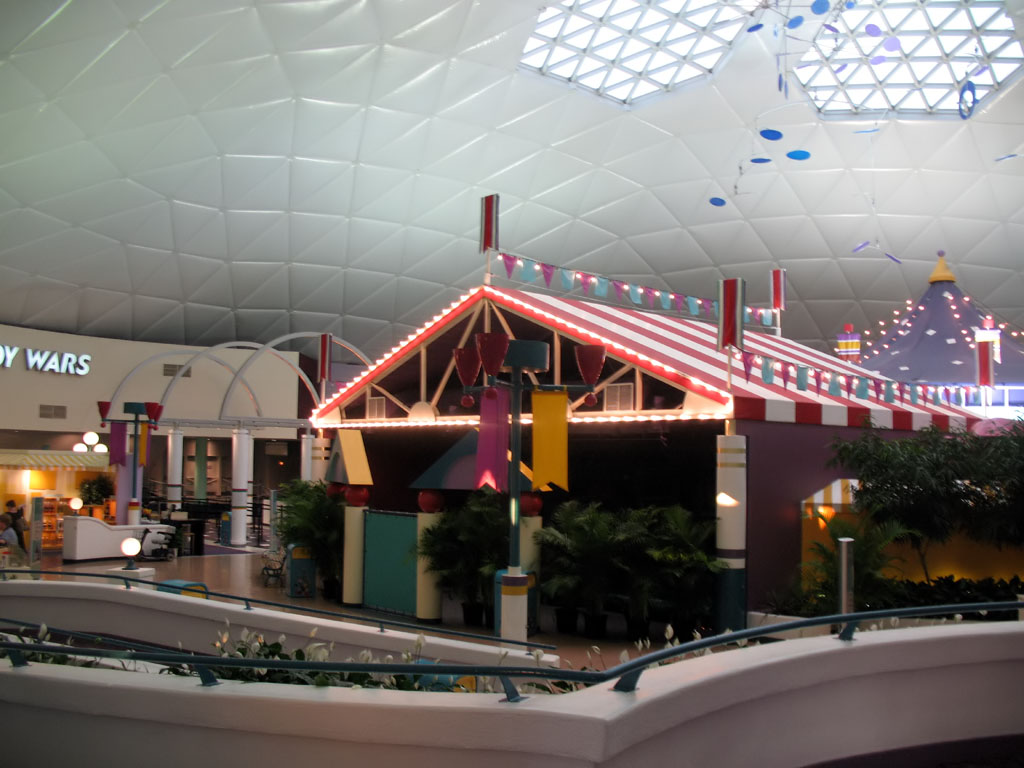 Inside the Wonders of Life pavilion at EPCOT during the Food and Wine festival. Taken October 2007